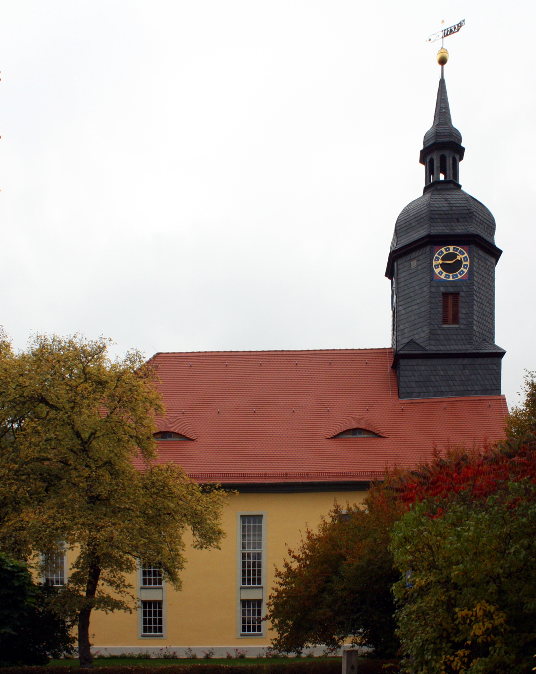 Church in Hermsdorf near Gera/Thuringia